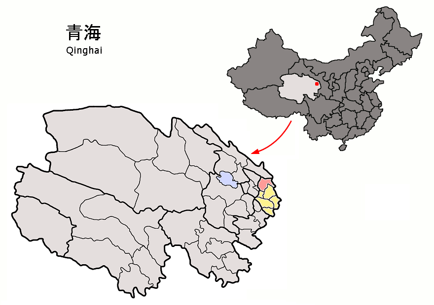 Location of Huzhu County (pink) and Haidong Prefecture (yellow) within Qinghai province of China Map drawn in september 2007 using various sources, mainly : Qinghai province administrative regions GIS data: 1:1M, County level, 1990 Qinghai Counties map from "Plateau Perspectives" (the limits of some county-level subdivisions may not be accurate)